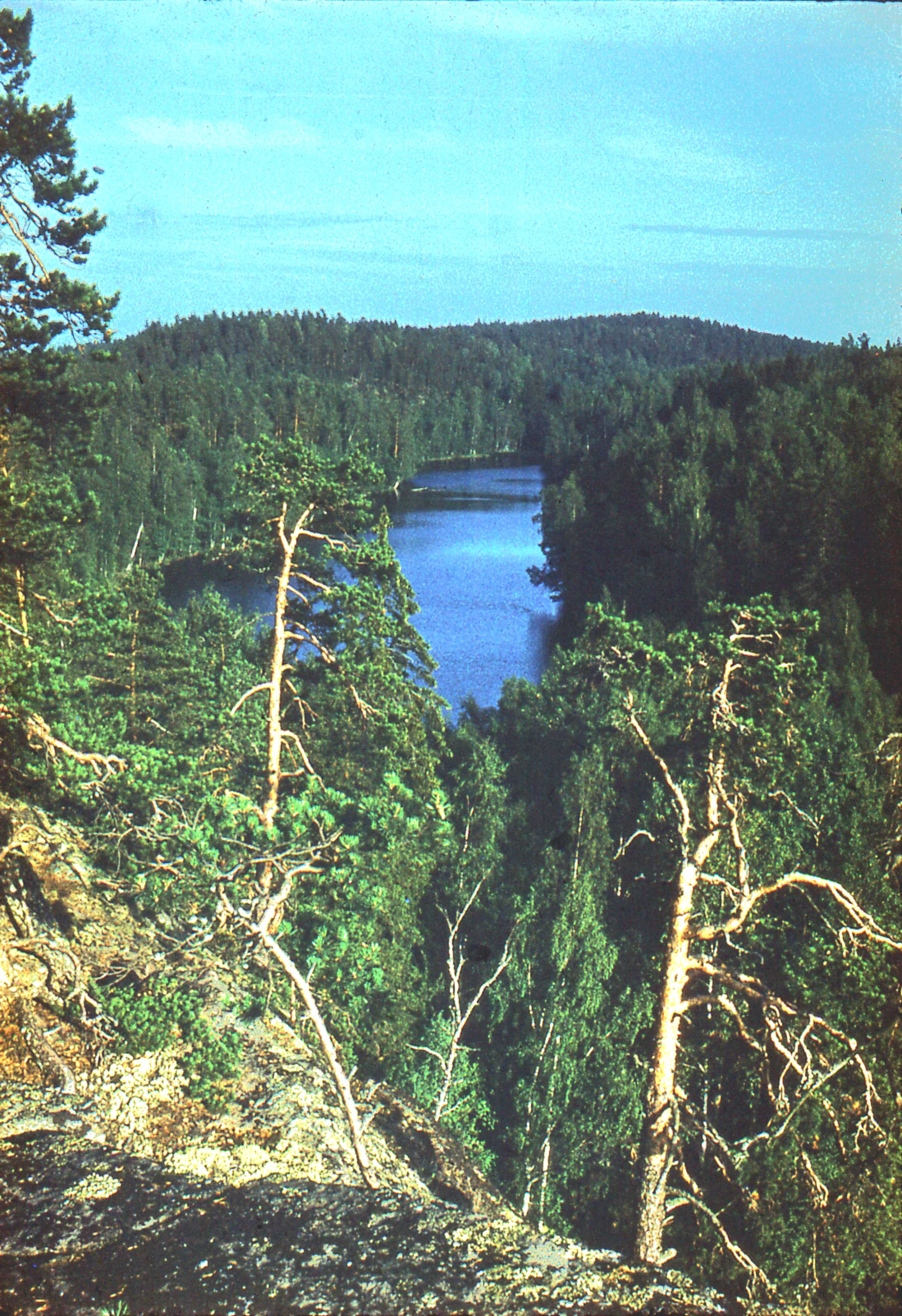 View to the inland lake from the island, where was the quarry, (granite Putsari)